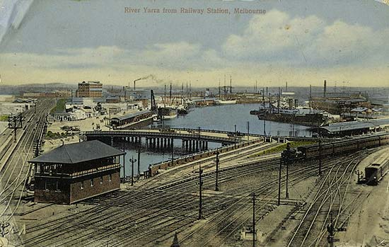 River Yarra from Railway Station, Melbourne, circa 1913. Inscription: River Yarra from Railway Station, Melbourne. Description: Rail yards beside the Yarra River. Two trains in the yards. Horse-drawn vehicles crossing bridge in background. There is a signal box on the left and rail tracks crossing the river. There are steam and sailing ships in the river. Location: Melbourne, Victoria, Australia